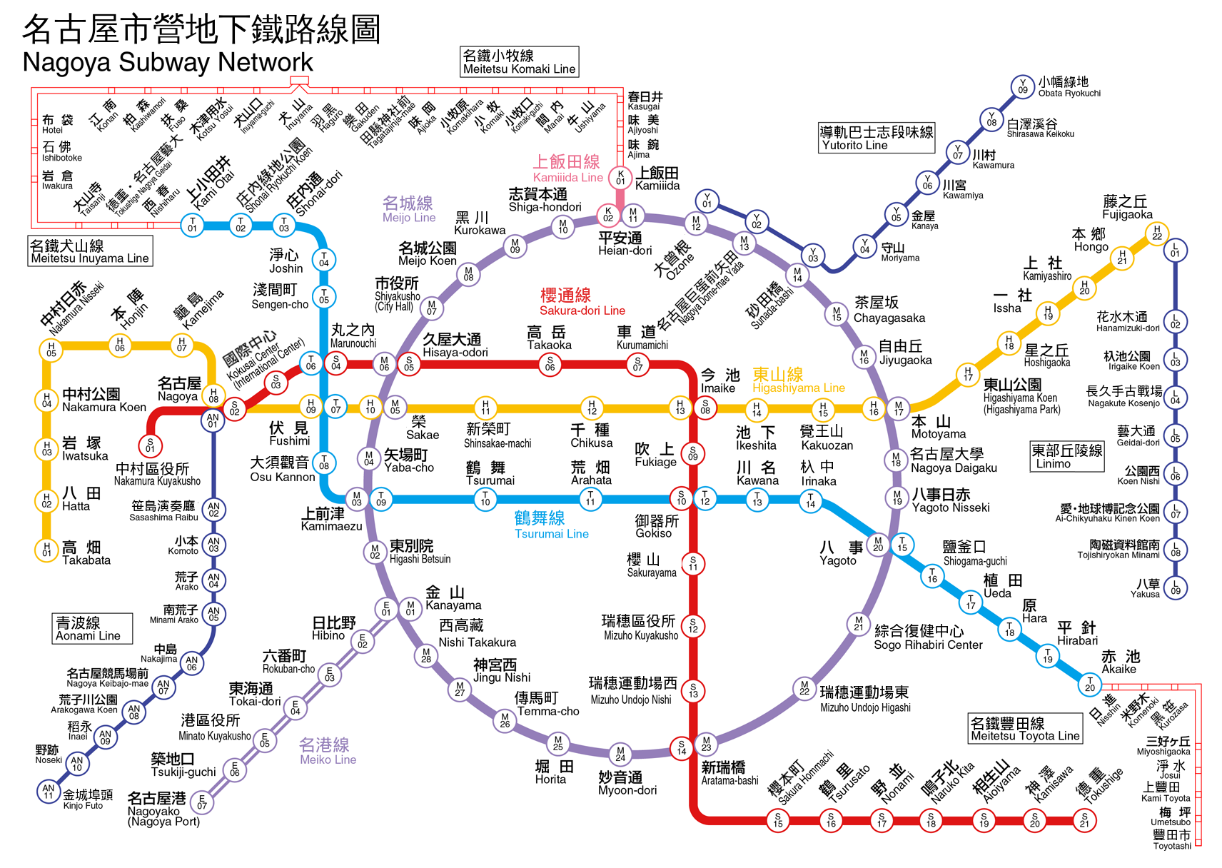 Map of Nagoya City Subway(chinese)